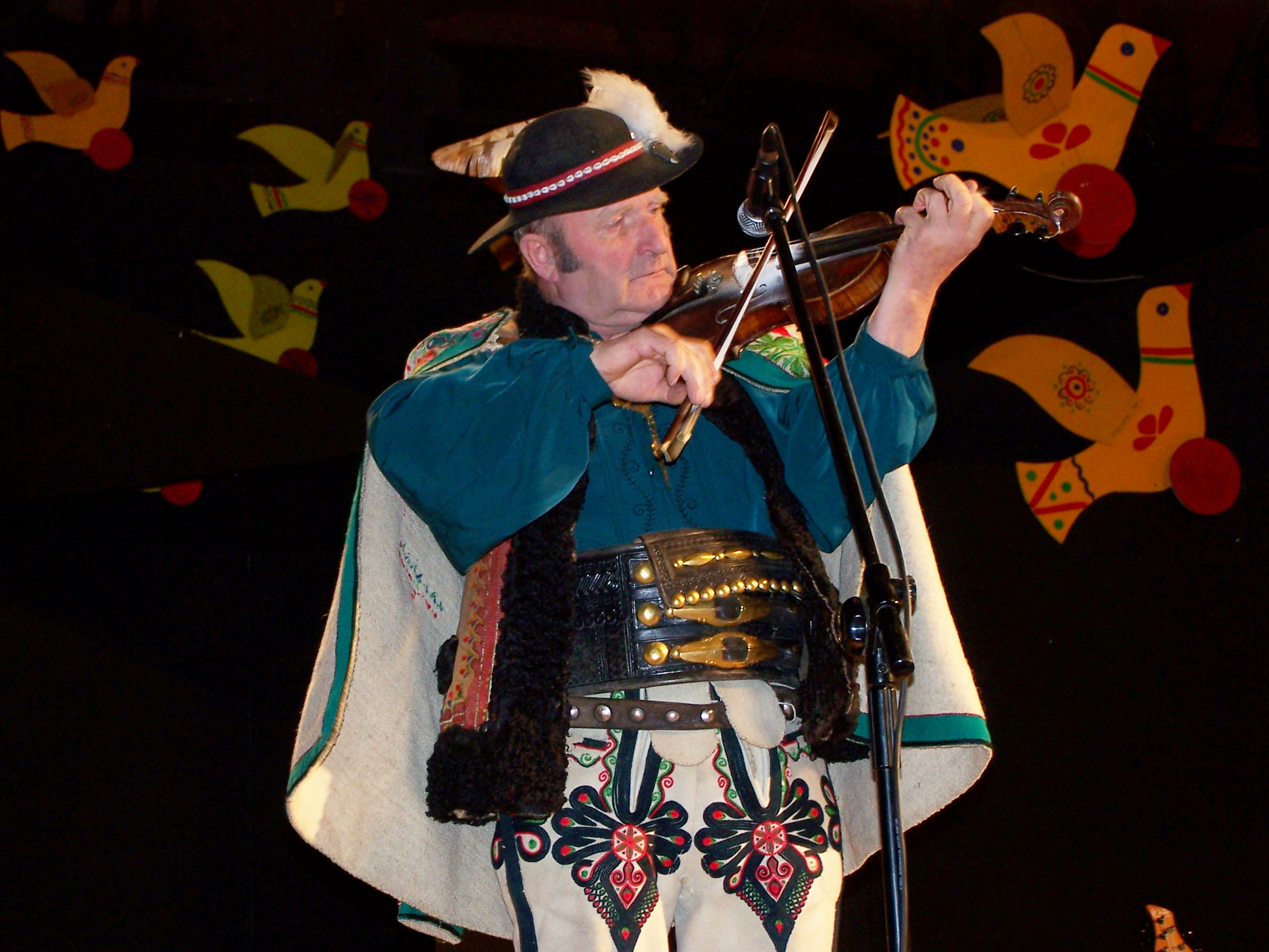 Władysław Trebunia of Trebunie-Tutki performs at the 43rd Beskid Culture Week in Żywiec Poland. Wearing traditional Goral attire from Podhale.